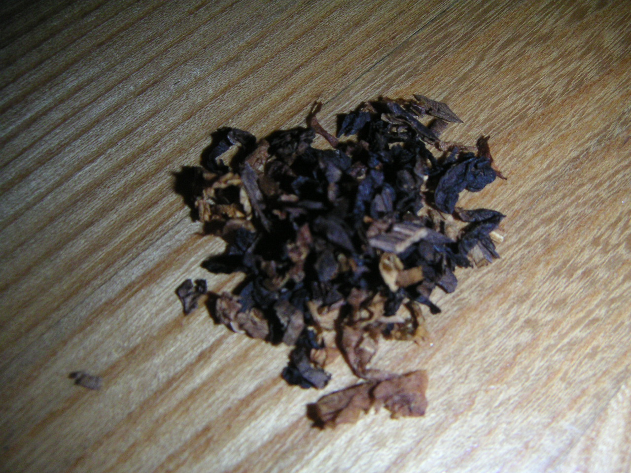 Vanilla Tobacco from Borkum Riff